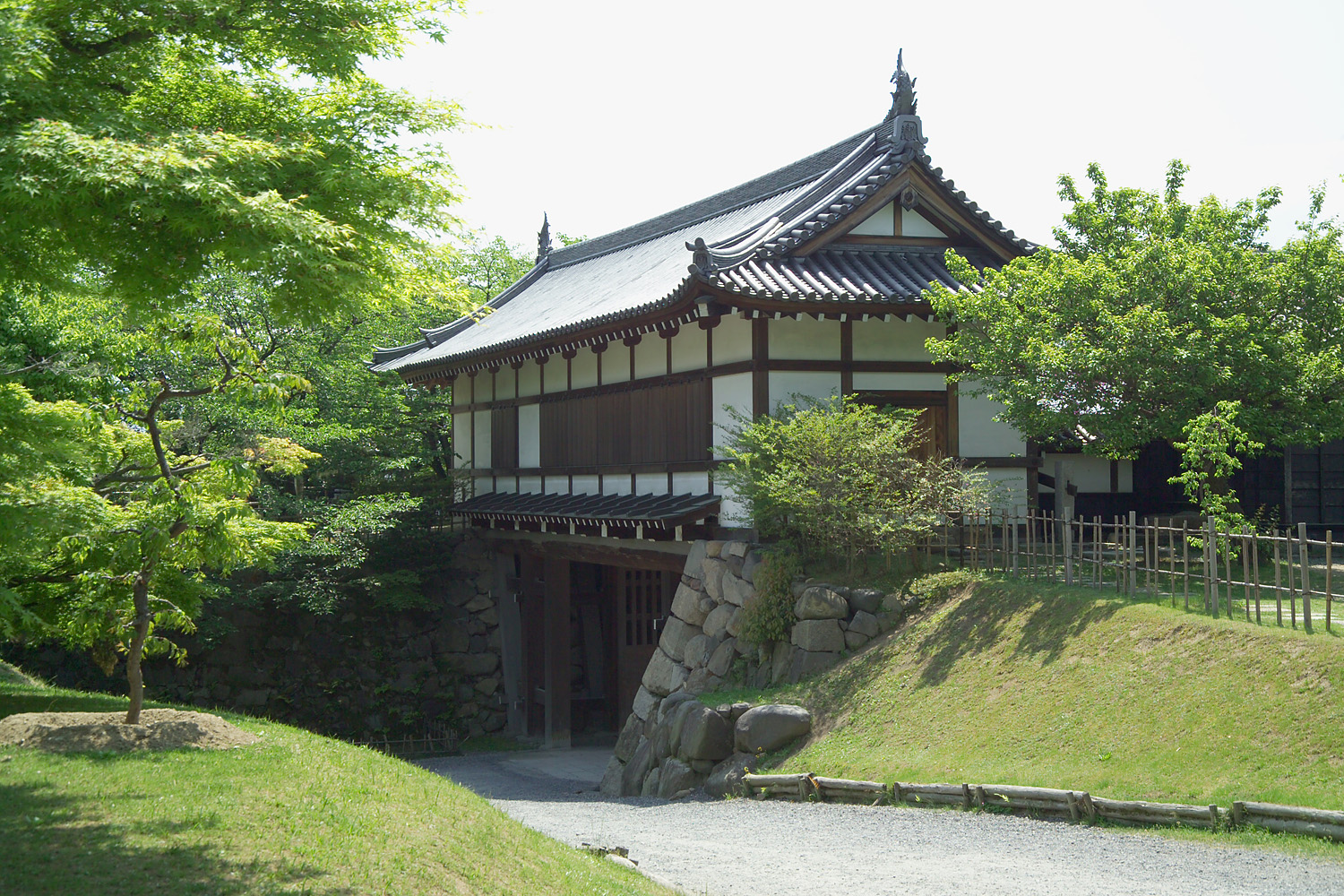 A gate at Kōriyama Castle in the city of Yamatokōriyama, Nara Prefecture, Japan